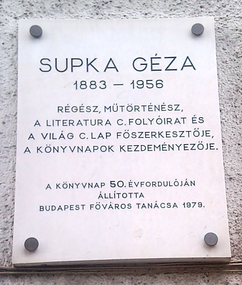 Géza Supka commemorative plaque in Budapest District XI, Bocskai Street No 23.